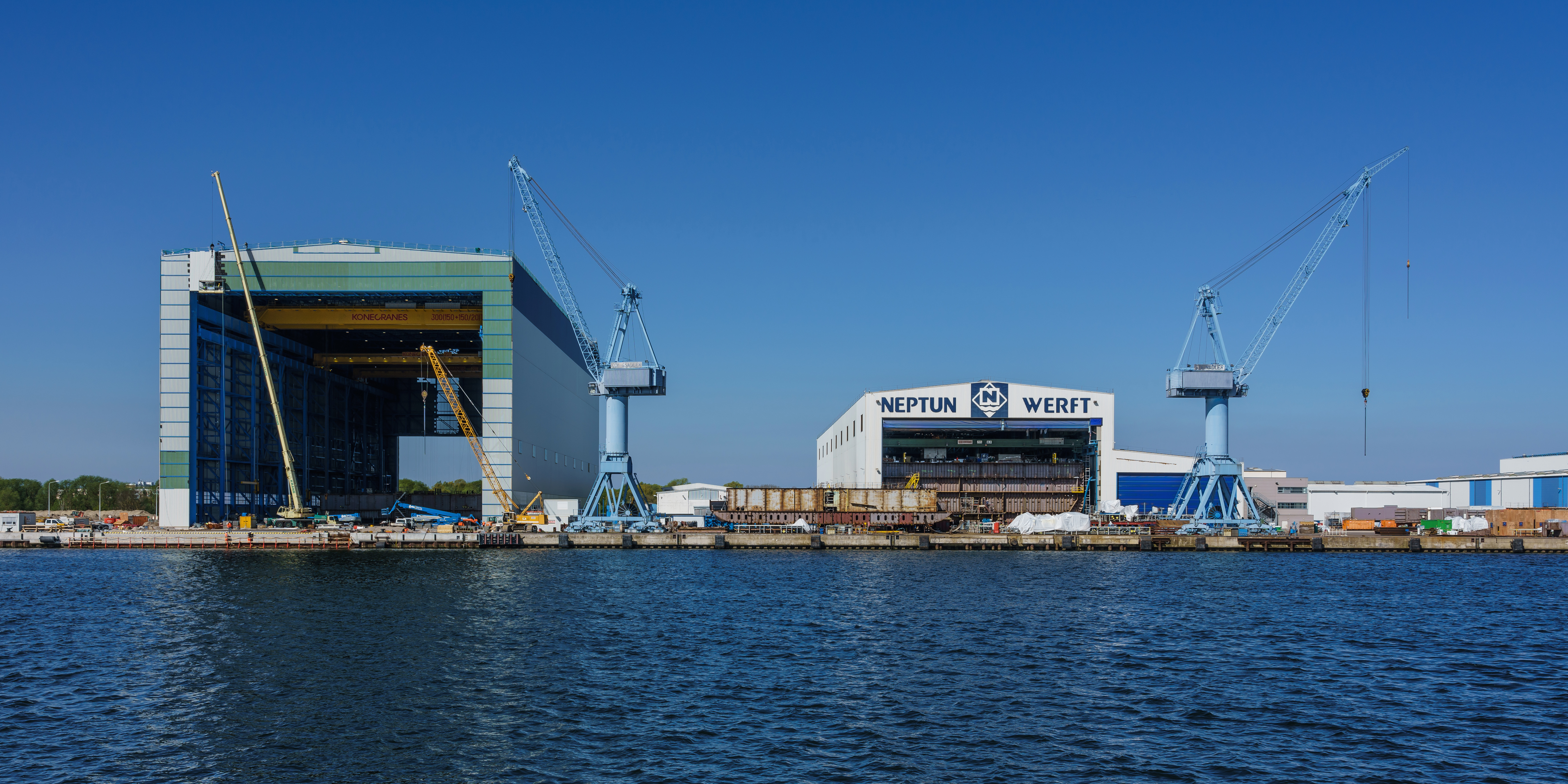 Shipyard near Warnemünde, Rostock, Germany